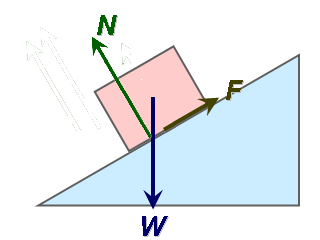 I modified this image myself. The original is free_body_diagram.png, uploaded to Wikipedia by SlaveOfExam